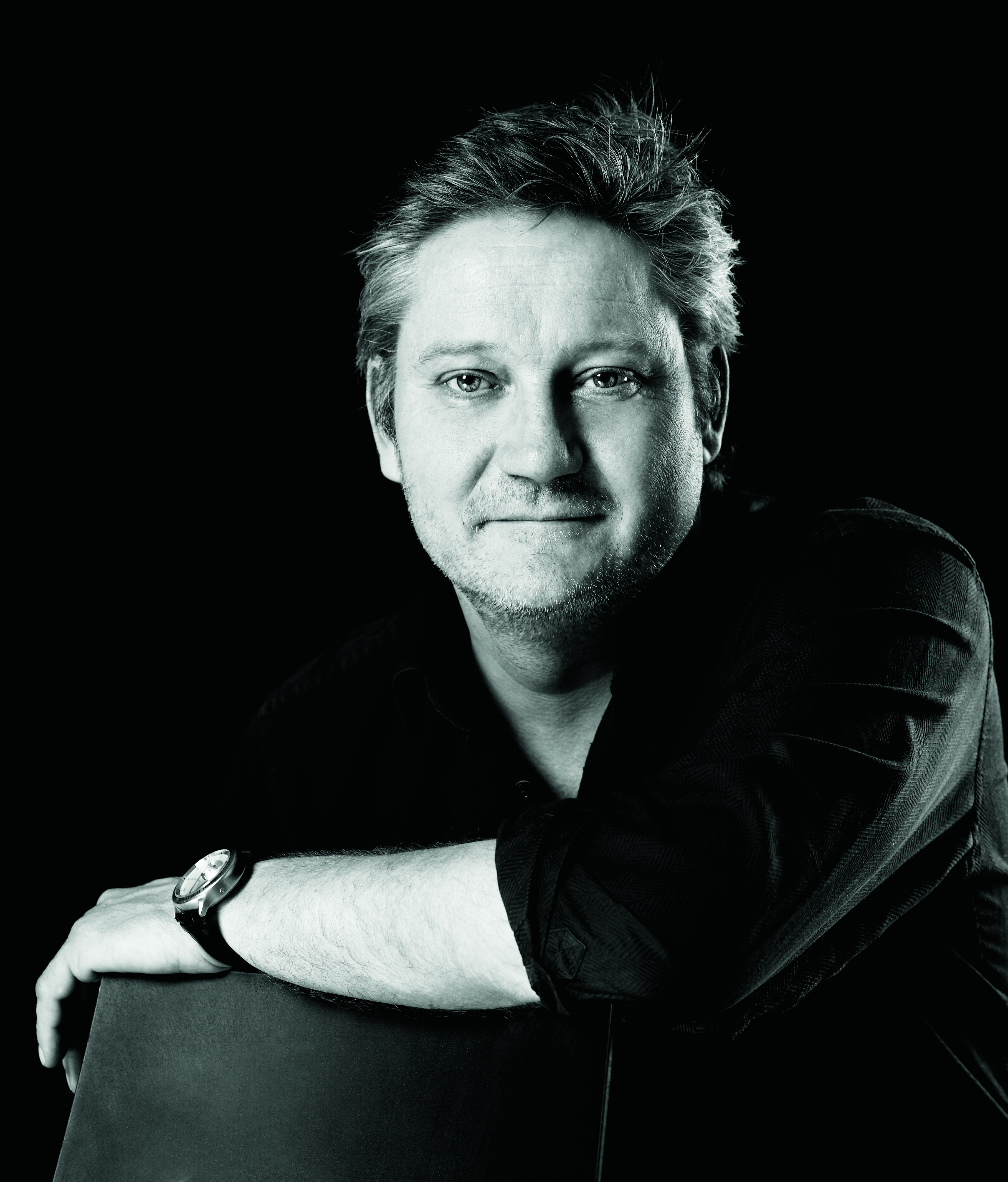 Anders Nørgaard